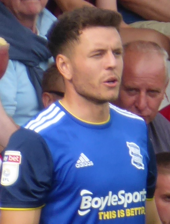 Kerim Mrabti waits to enter Birmingham City's EFL Championship match against Brentford at Griffin Park on 3 August 2019